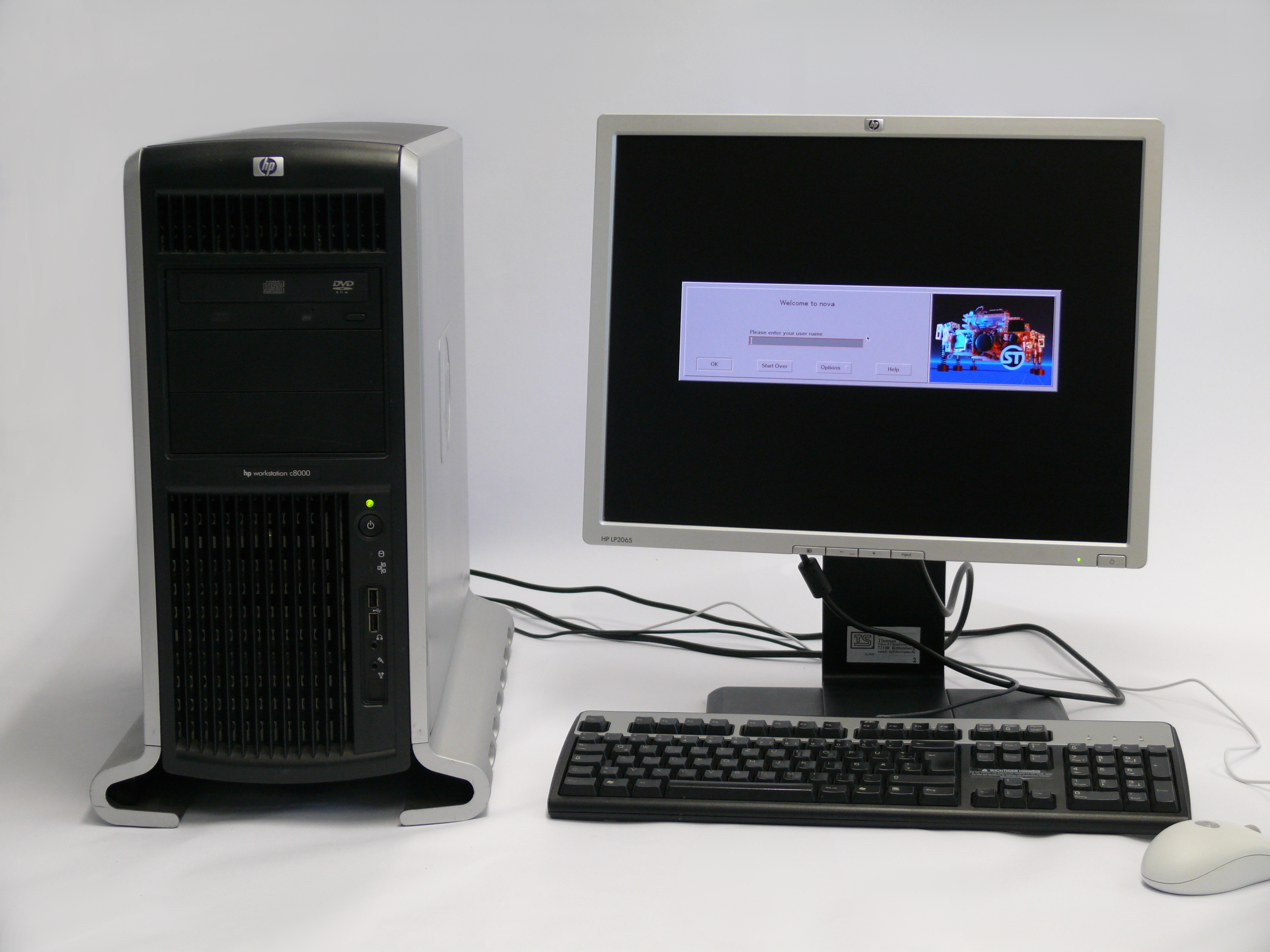 Hewlett-Packard HP9000 UNIX Workstation, Model C8000, 2x PA-RISC 8800 Dual Core CPUs - 64 Bit - 900 MHz / 2x PA-RISC 8900 Dual Core CPUs - 64 Bit - 1100 MHz, max. 32 GByte RAM, 4x PCI-X, 2x PCI, AGP Pro 8x, zx1 chipset, two channel Ultra-320 SCSI, USB Keyboard and Mouse, HP-UX 11i 64 Bit, CDE, HP LP2065 20" Color LCD